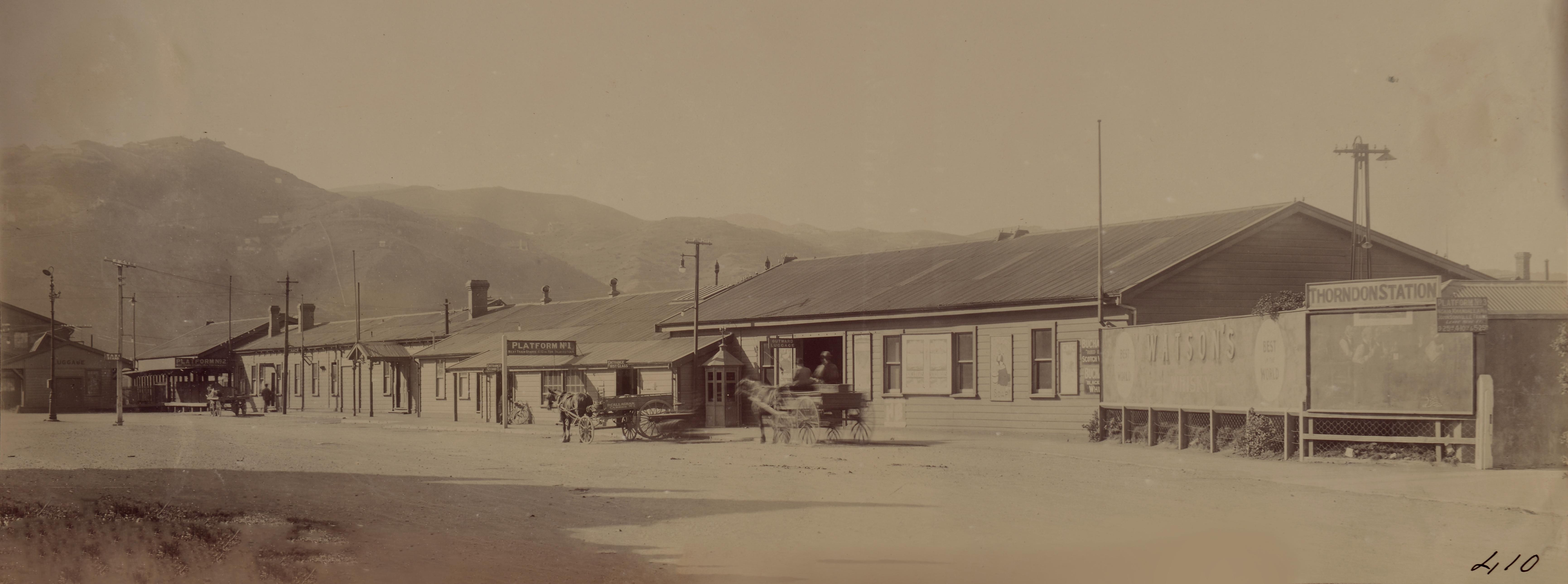 Archives Reference: ABIN W3337 Box 250 R19600361